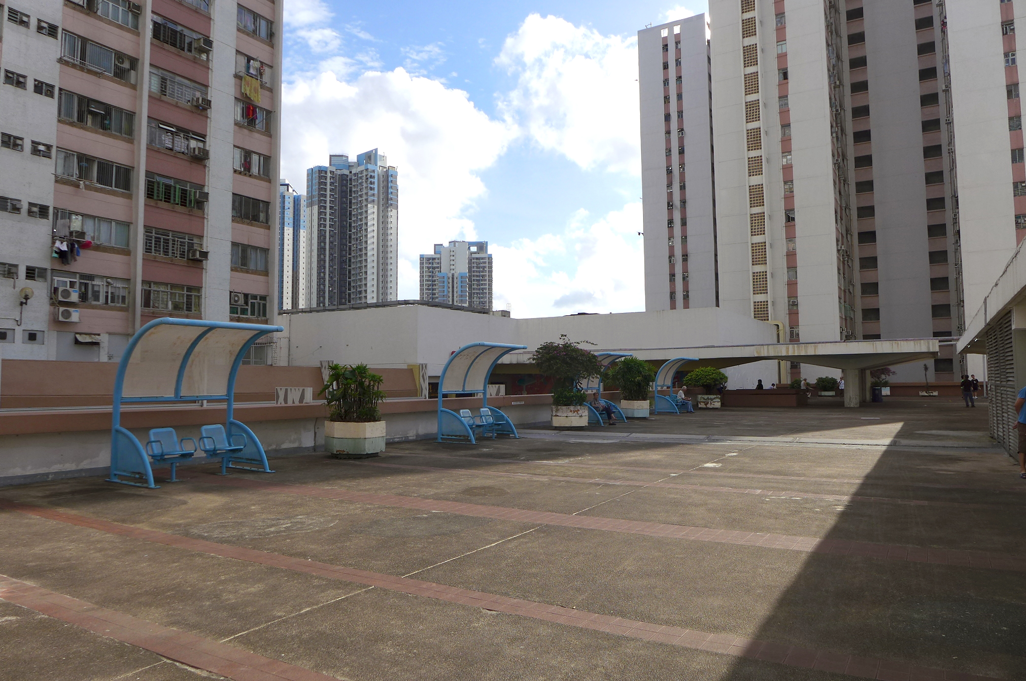 Choi Wan Estate Shopping Centre Roof